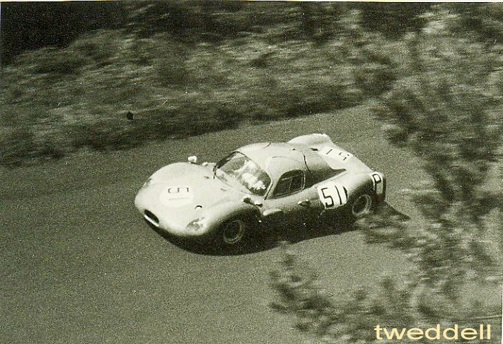 Costin Nathan 1000 km Race Nurburgring 1967